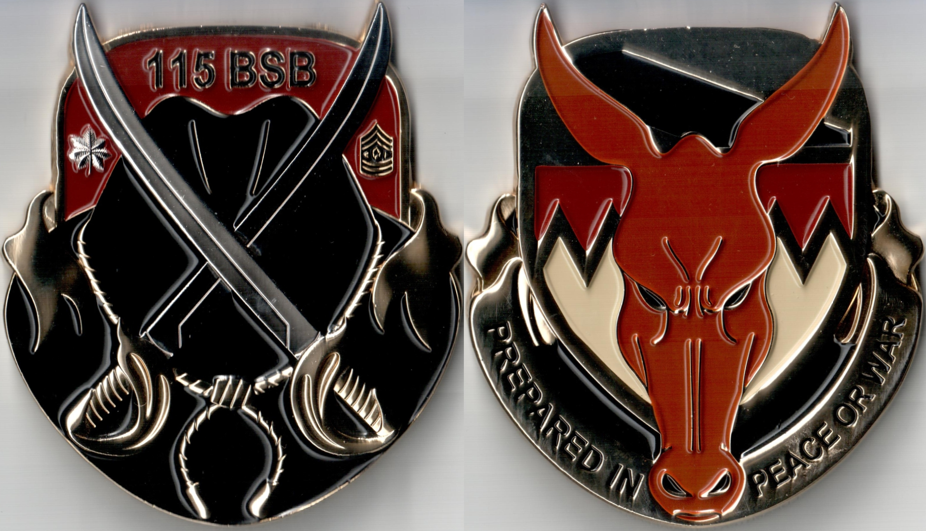 Challenge coin 115th Brigade Support Battalion „Muleskinners”